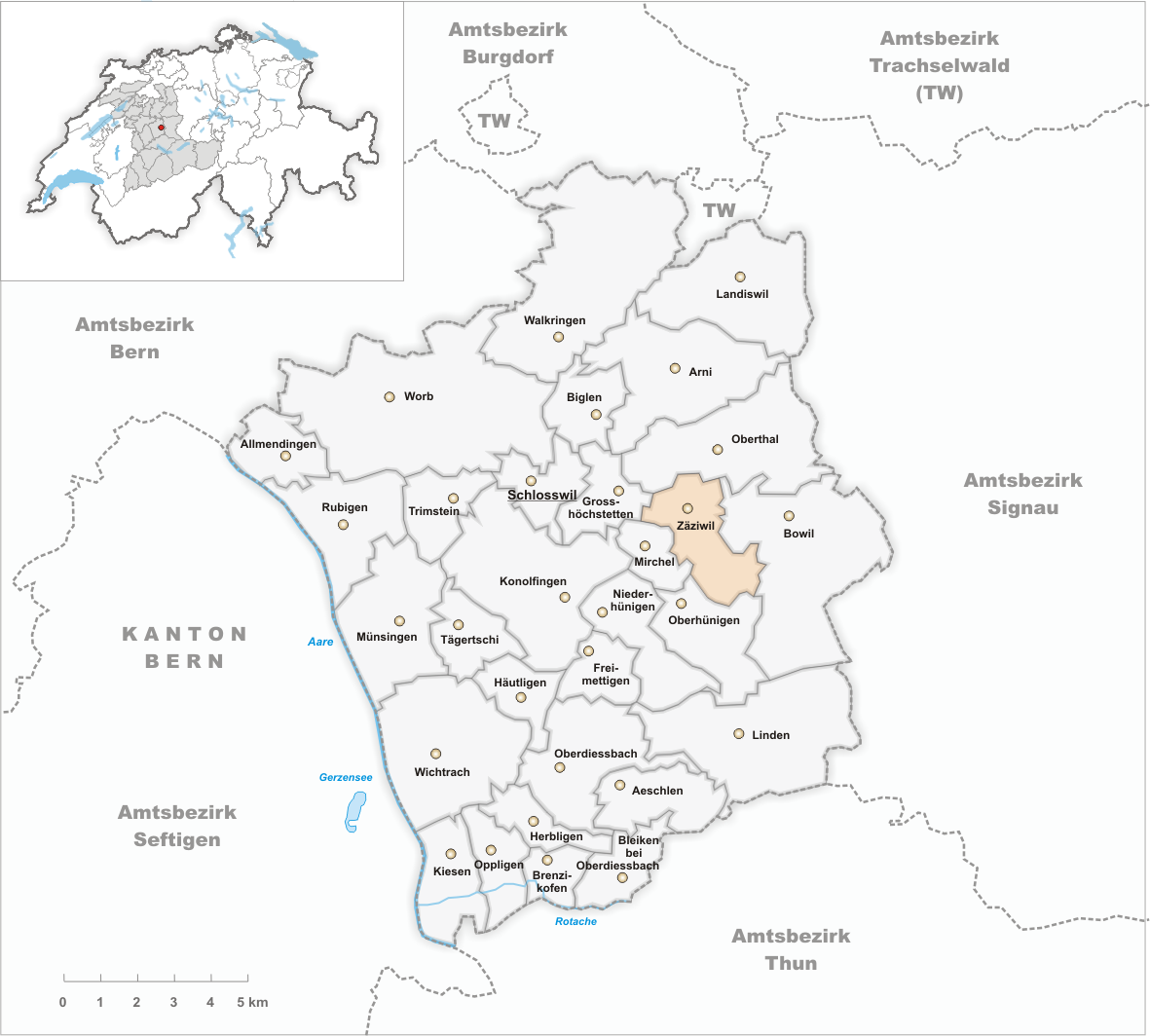 Municipality Zäziwil